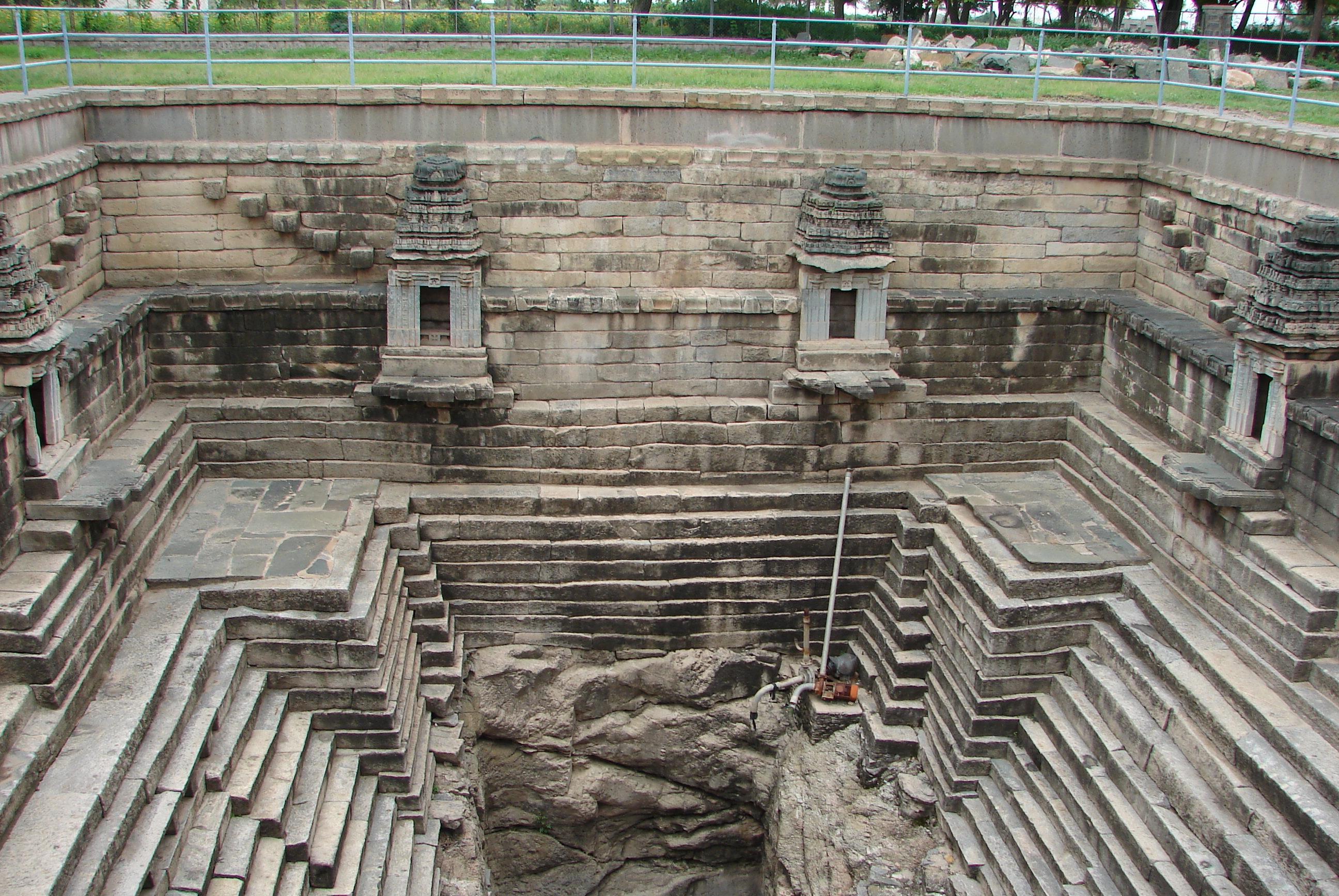 Manikesvara temple in Lakkundi, Gadag district, Karnataka state, India